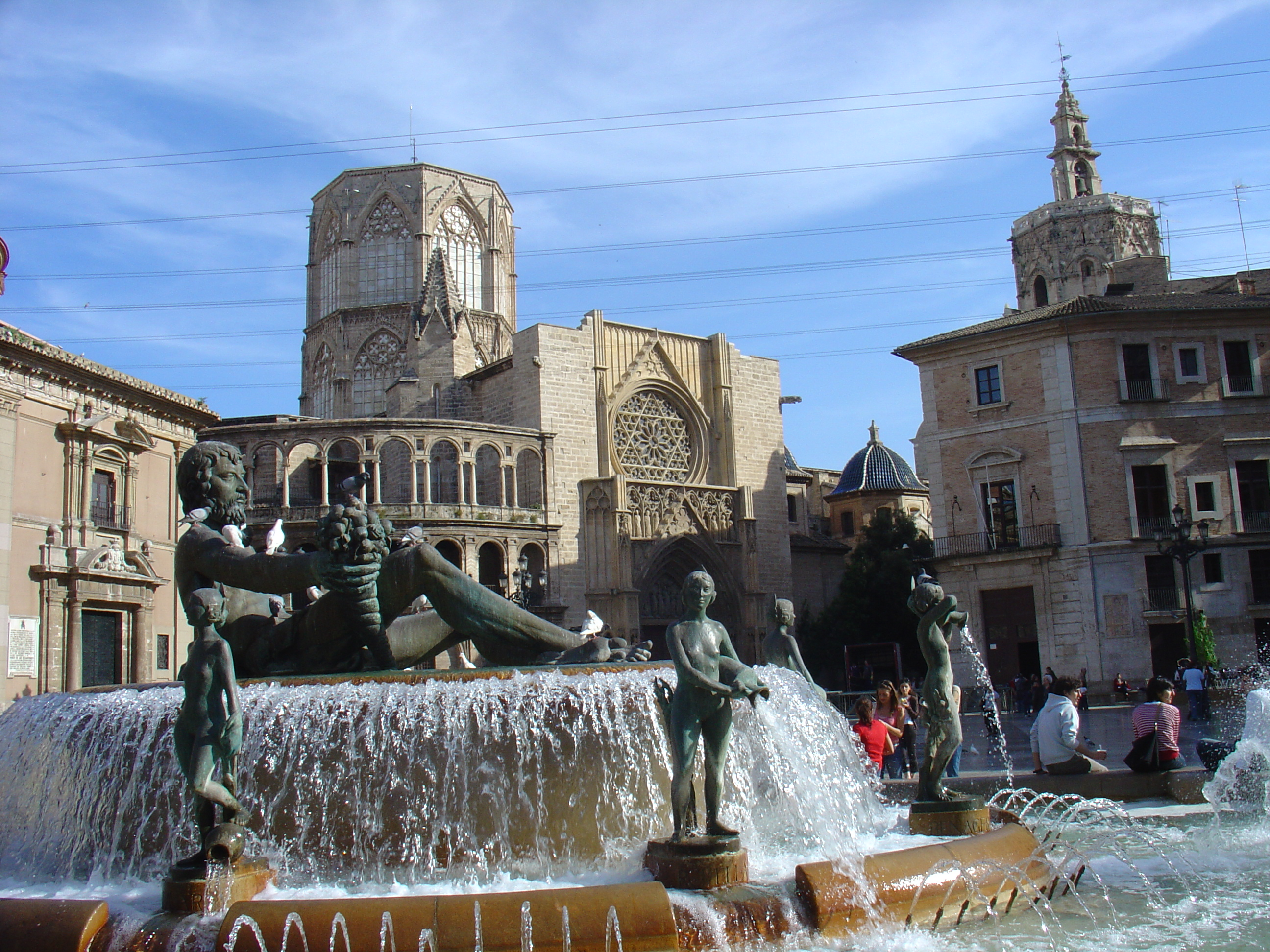 photo of Valencia's cathedral taken by me (GFDL licence)